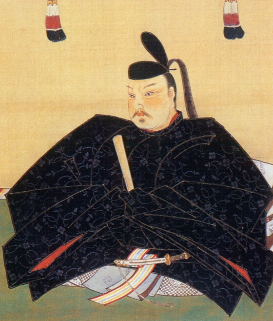 豊臣秀長（羽柴秀長）戦国時代から安土桃山時代にかけての武将。大名。豊臣秀吉の弟。 Toyotomi Hidenaga (1540 - 1591) was a half-brother of Toyotomi Hideyoshi, one of the most powerful (and significant) warlords of Japan's Sengoku period.